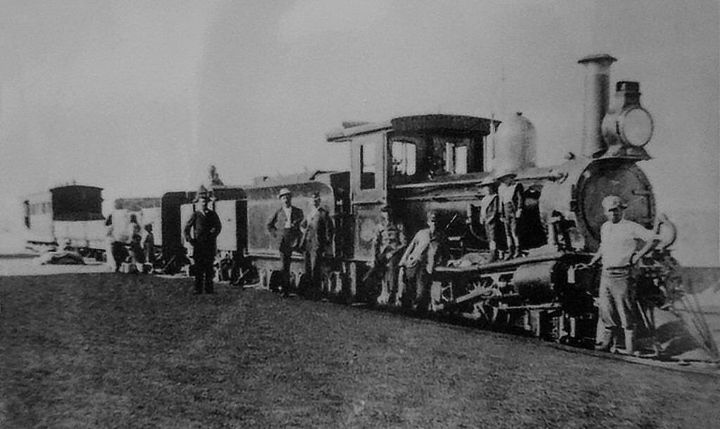 Cape Government Railways 1st Class 2-6-0 "inclined" of 1879, built by Beyer, Peacock. Note that the running boards are also inclined along with the cylinders.